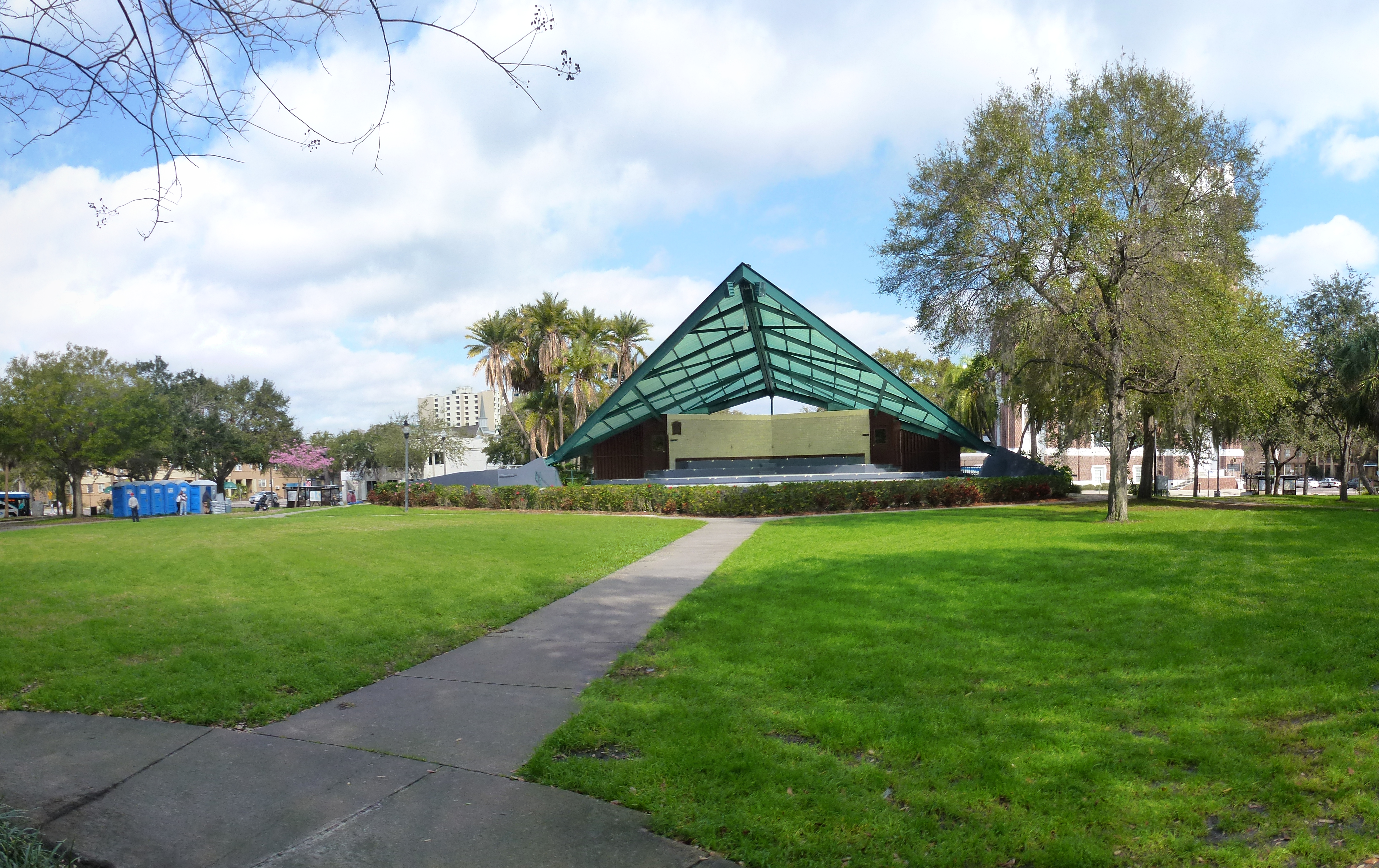 Amphitheater in Williams Park, Downtown St. Petersburg, Florida USA.